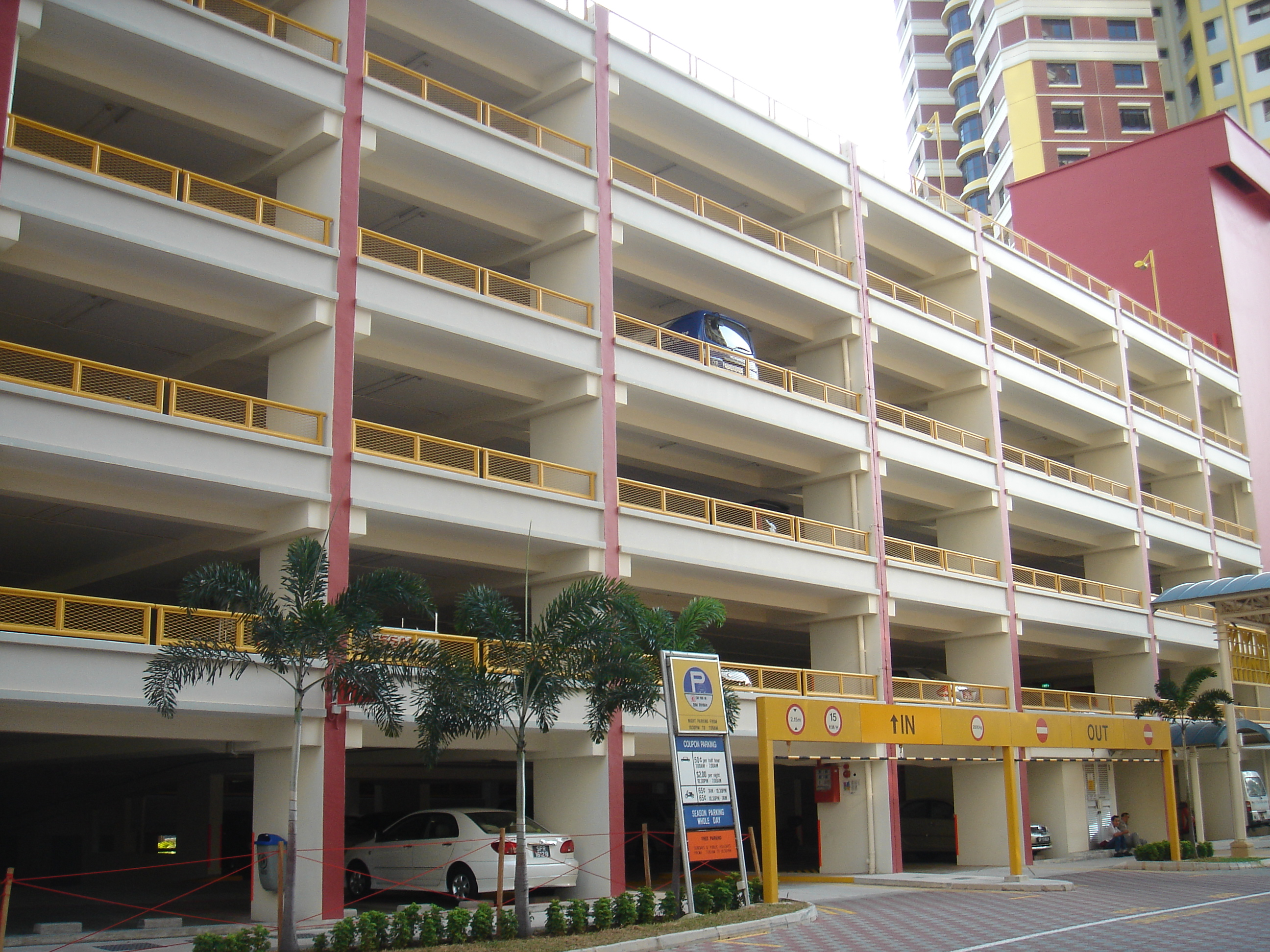 A multi-storey car park in a Housing and Development Board (HDB) estate in Singapore.